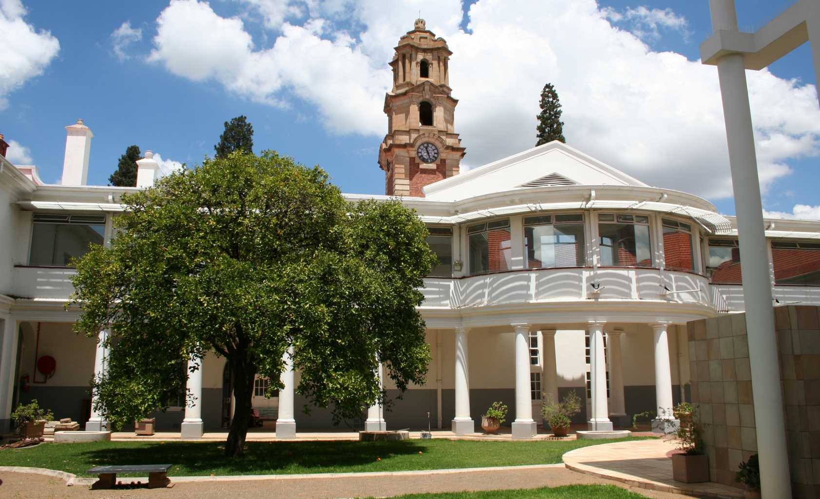 Courtyard of NALN, previously known as the Old Government Building. There are two orange trees in the courtyard. This media shows a South African Protected Site with SAHRA file reference 9/2/302/0028.